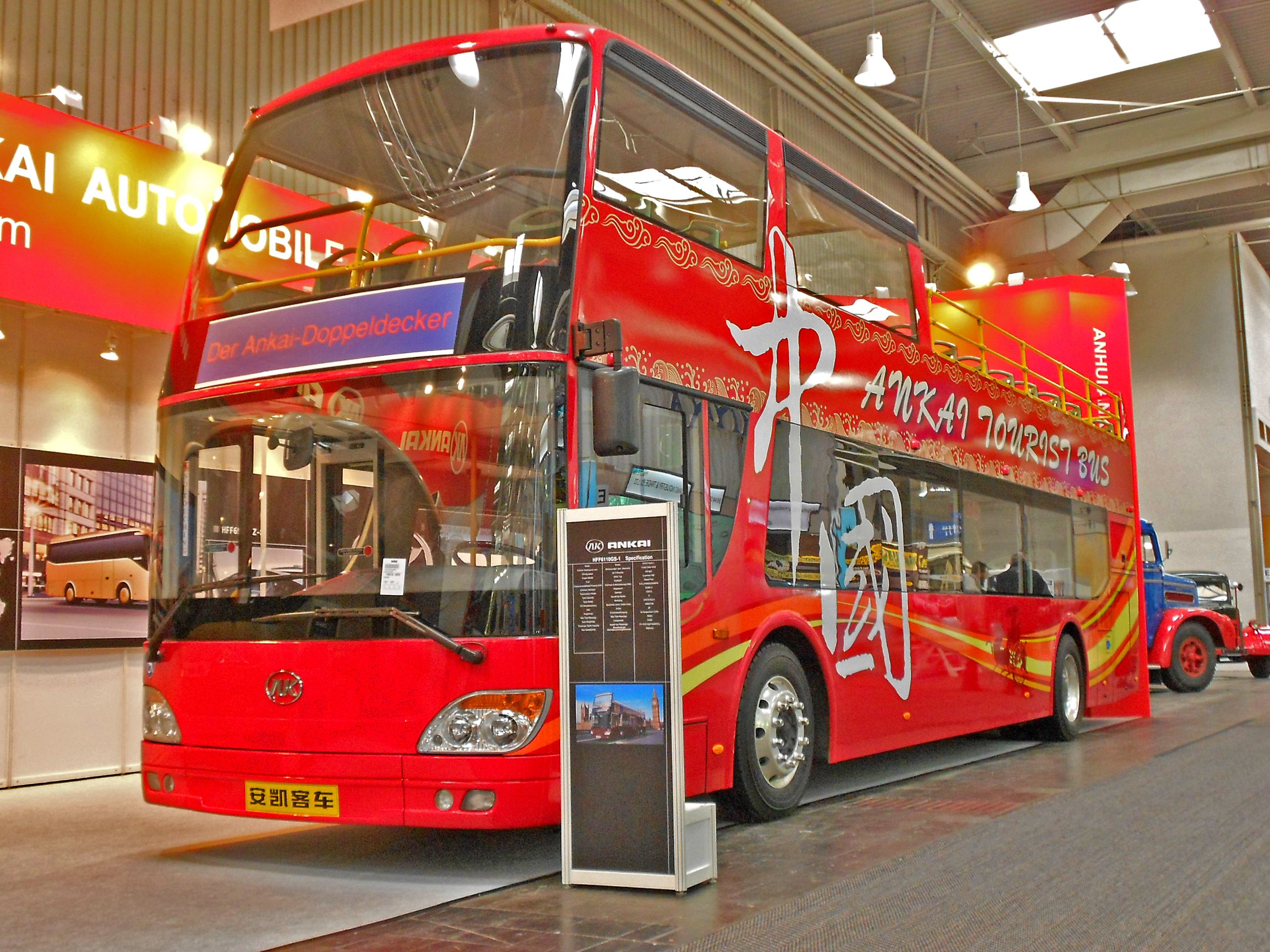 Ankai double-decker bus HFF 6110GS 1 (built 2012). On exhibition IAA 2012 in Hanover, Germany.